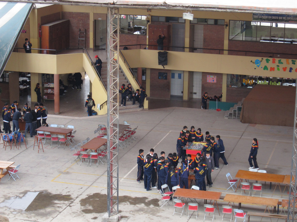 Gutenberg School in Comas, Lima. This school gives good education for children of poor parents. It is run by a German social association ("Kinderwerk Lima")